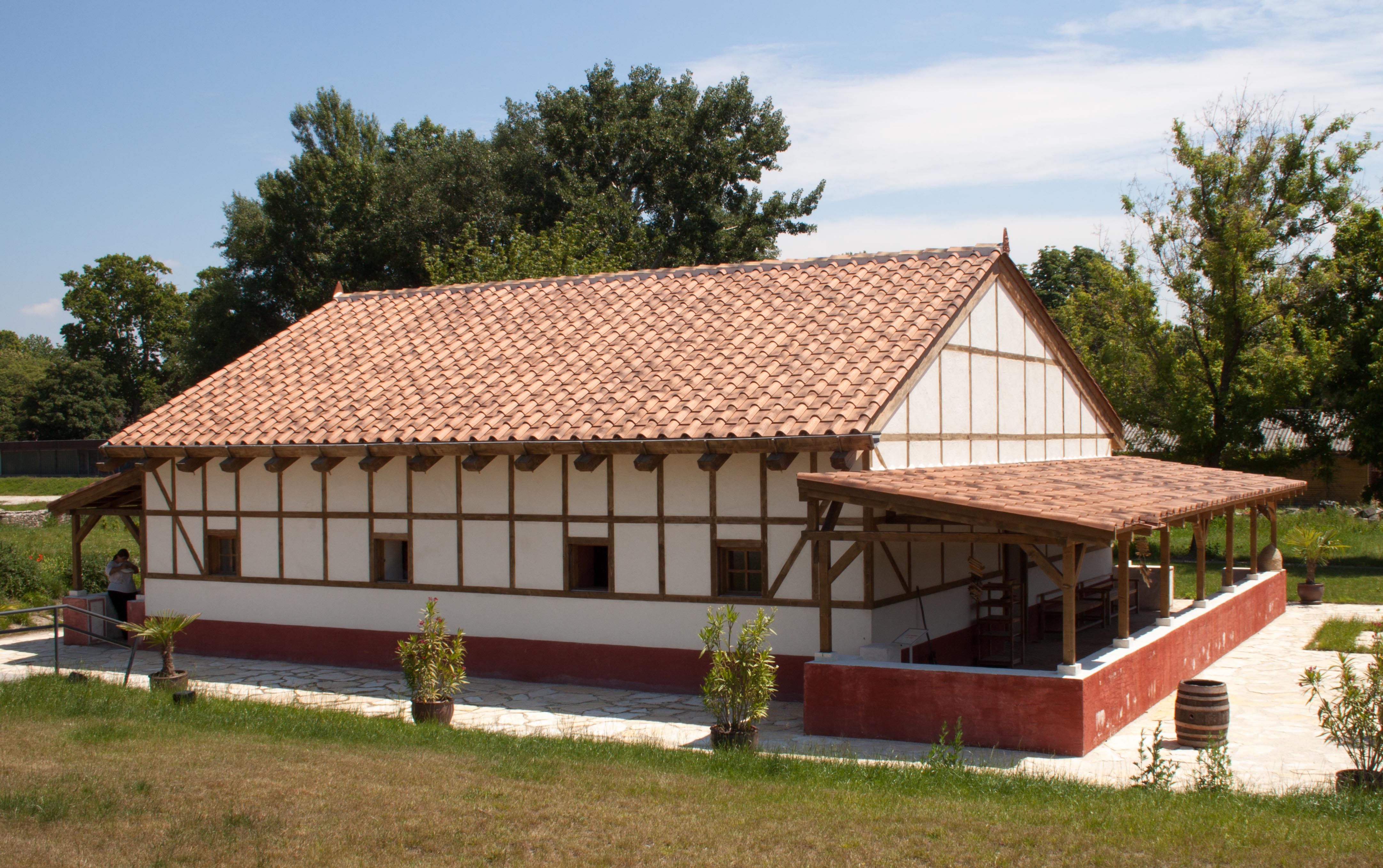 Painting-house - reconstruction of a Roman house in the museum